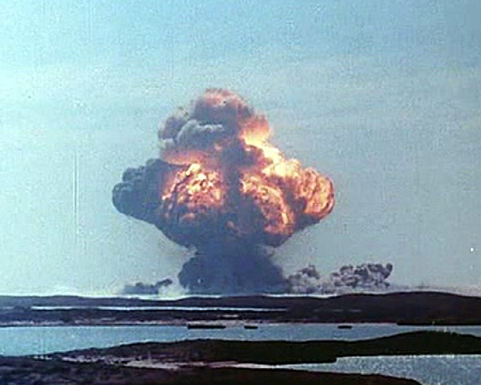 Mosaic G2 nuclear test of the United Kingdom.